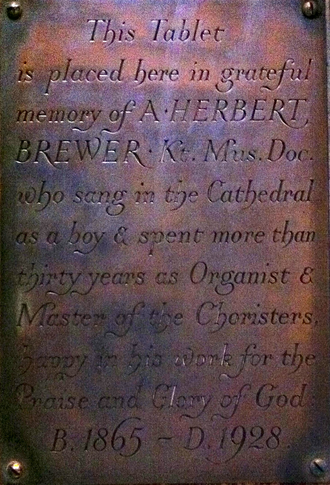 This Tablet is placed here in grateful memory of A. Herbert Brewer, Kt, Mus. Doc. who sang in this Cathedral as a boy & spent more than thirty years as Organist & Master of the Choristers, happy in his work for the Praise and Glory of God. B. 1865 - D. 1928